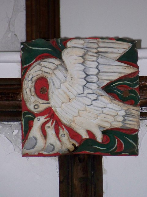 Roof boss, St Pancras Church, Widecombe-in-the-Moor 'The Pelican-in-her-Piety'. In Christian art the pelican generally symbolises charity, but the phrase 'Pelican-in-her-Piety' has an interesting derivation. The word 'piety' here has the classical meaning of devotion to one's young. For many centuries it was thought that the pelican fed her off spring with her own blood, hence this representation. In fact, the bird transfers pre-masticated food to its young from a large bag under its beak.